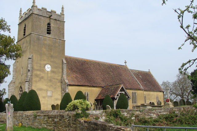 St Michael and All Angels parish church, Tirley, Gloucestershire, seen from the southwest